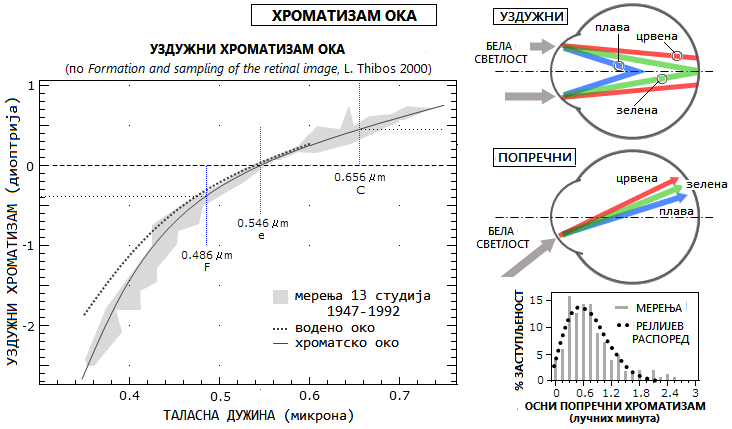 ХРОМАТИЗАМ ОКА